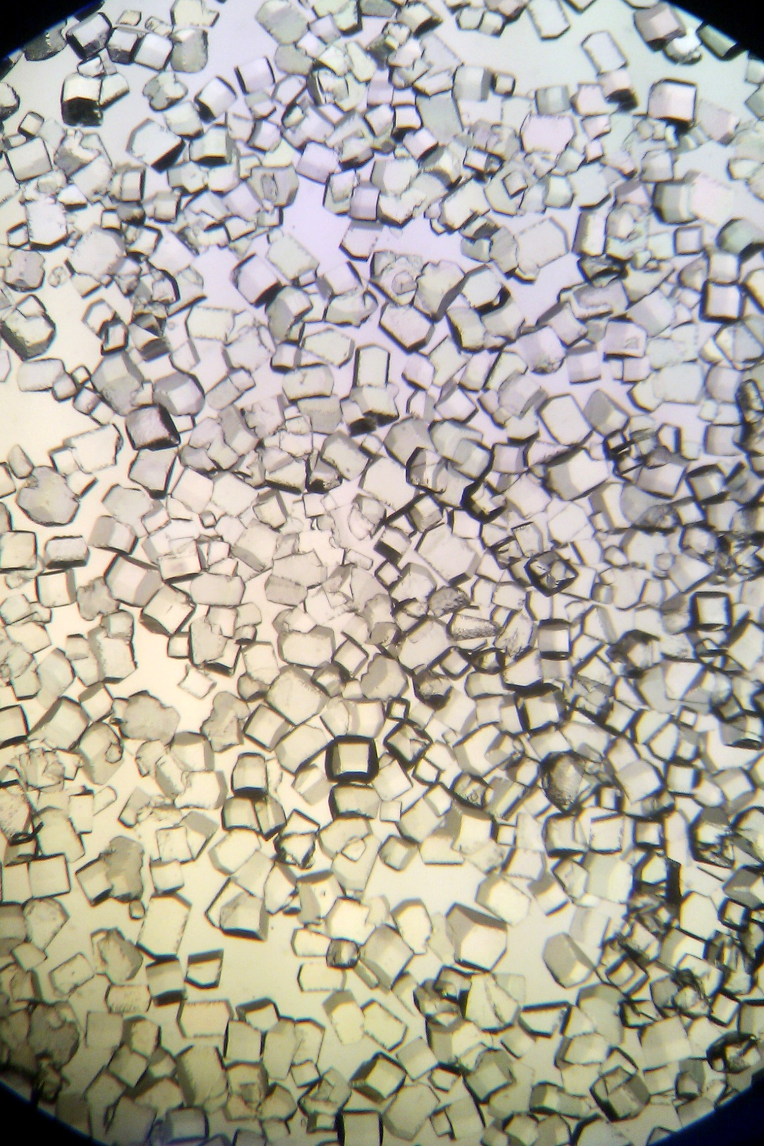 Lysozyme crystals in white light using microscope Nikon SMZ800. High lysozyme concentration and crystallization carried out in 4 degree Celsius.